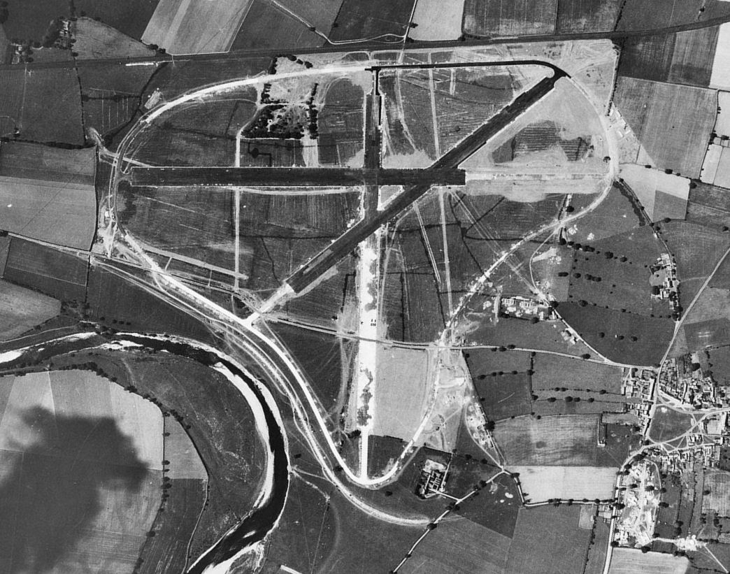 Aerial photograph of Scorton airfield looking north west, Scorton village is bottom right, 26 June 1941. Photograph taken on sortie number RAF/4F/UK653. English Heritage (RAF Photography).